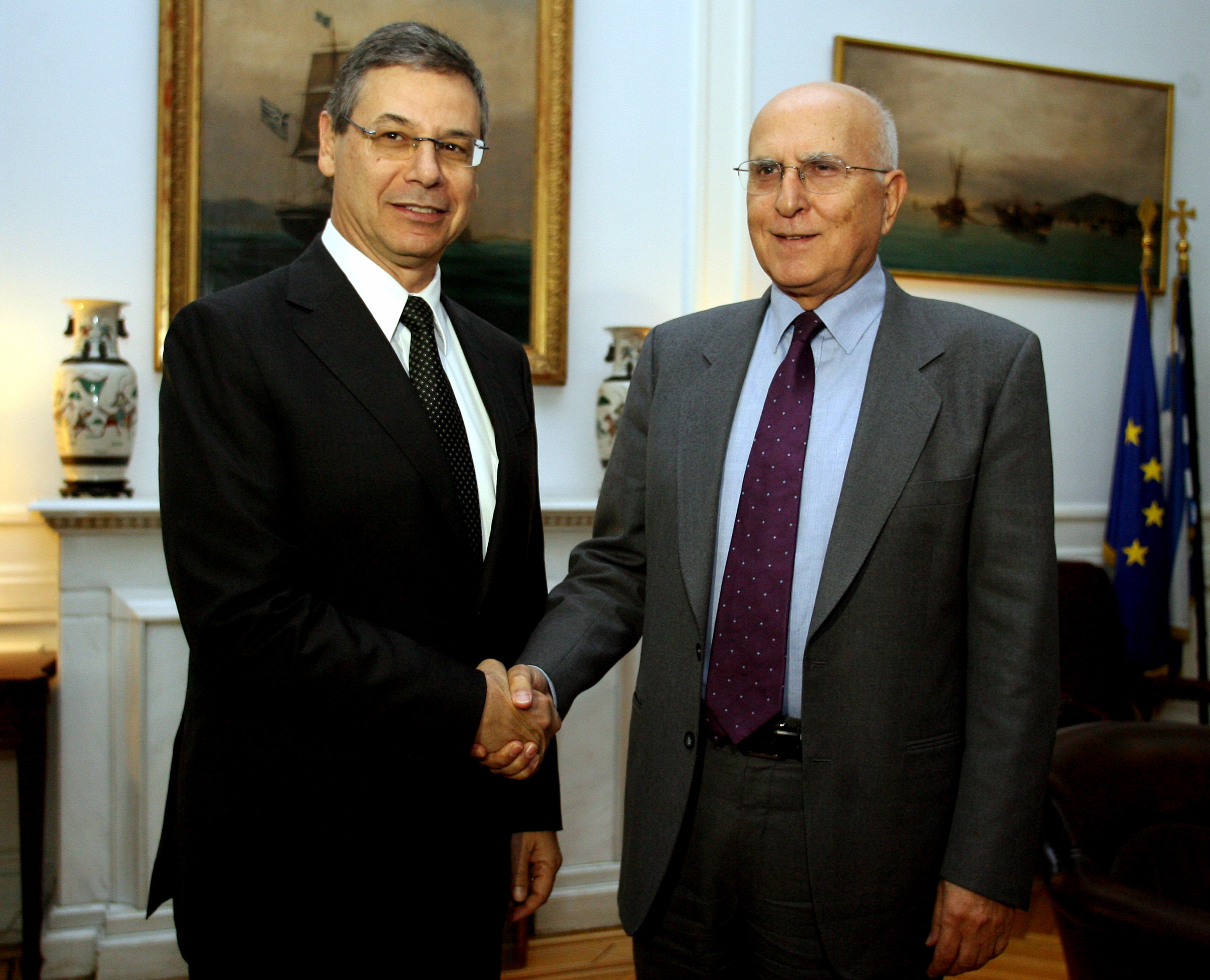 Deputy Foreign Minister of Israel Daniel Ayalon with Foreign Minister Stauros Dimas of Greece (23.11.2011).